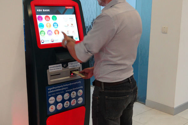 Cash-in machines help ABA clients to pay for the services of different providers, as well as make cash deposits to ABA Bank accounts. All transactions made via cash-in machines instantly displayed on clients' accounts with the respective service provider or at ABA Bank’s accounts. The main advantage of it is that a client can replenish deposit and make transactions to ABA Bank accounts, as well as make repayments on the loans without visiting Bank offices. Cash-in machines run 24/7 and allow top-up of ABA accounts regardless of the bank branches’ business hours.